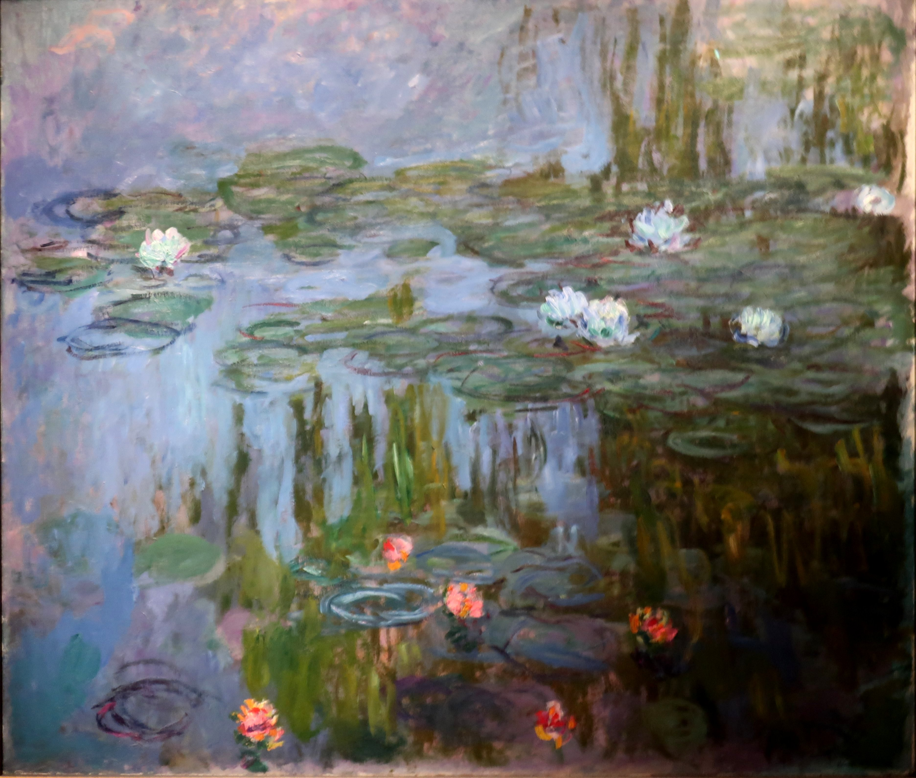 Waterlillies by Claude Monet circa 1914 on display at the Portland Art Museum in Oregon.